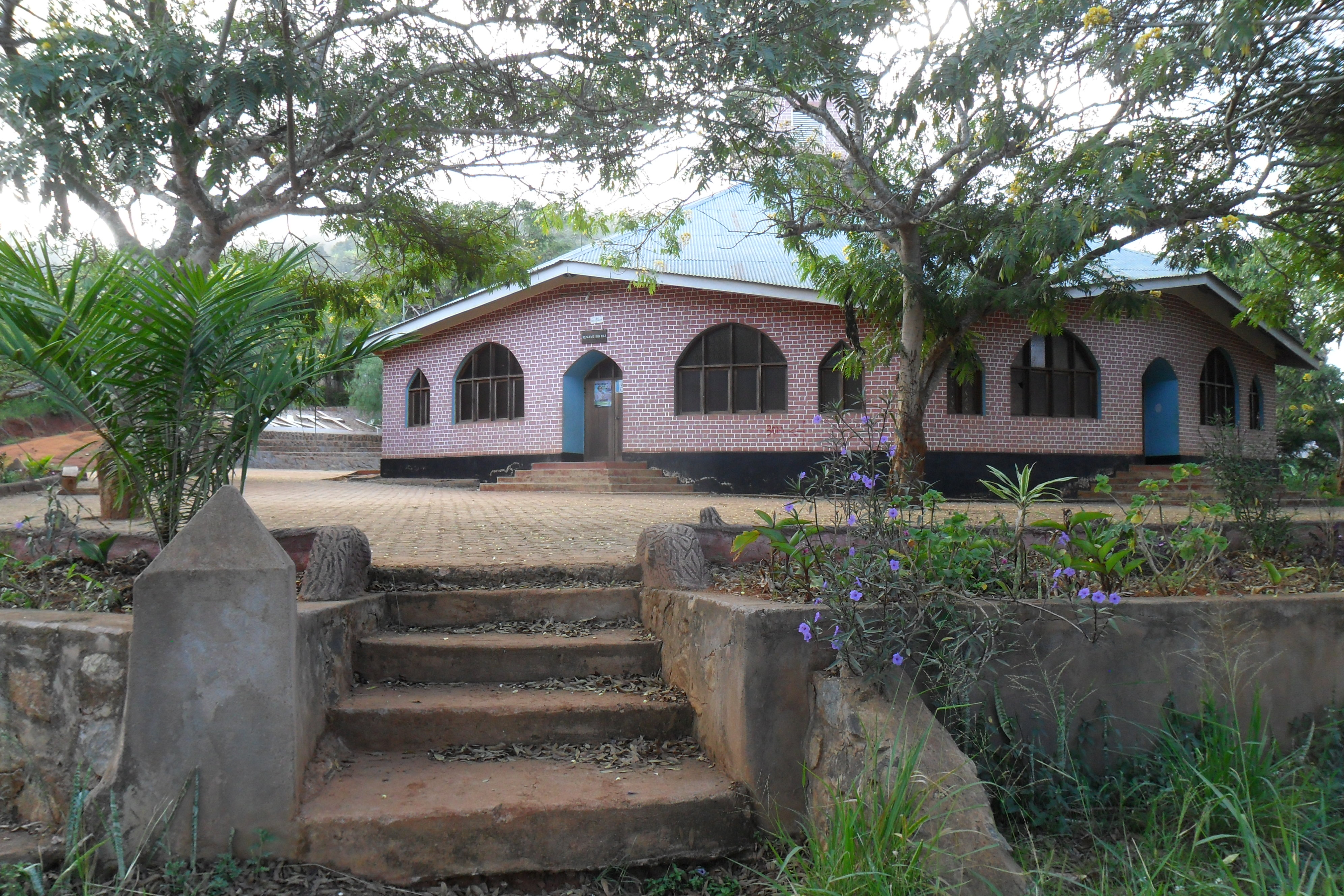 Church